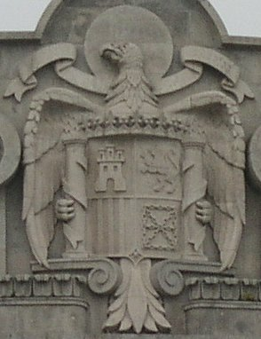 Francoist Eagle ("Águila de San Juan").